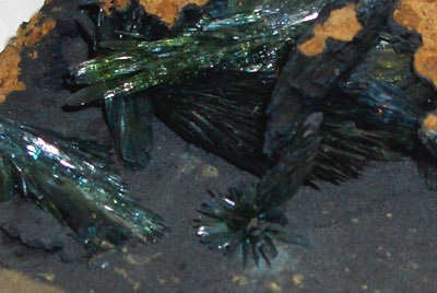 Vivianite crystals on limonite, 7-cm specimen. From Kerch, Crimea, Ukraine.